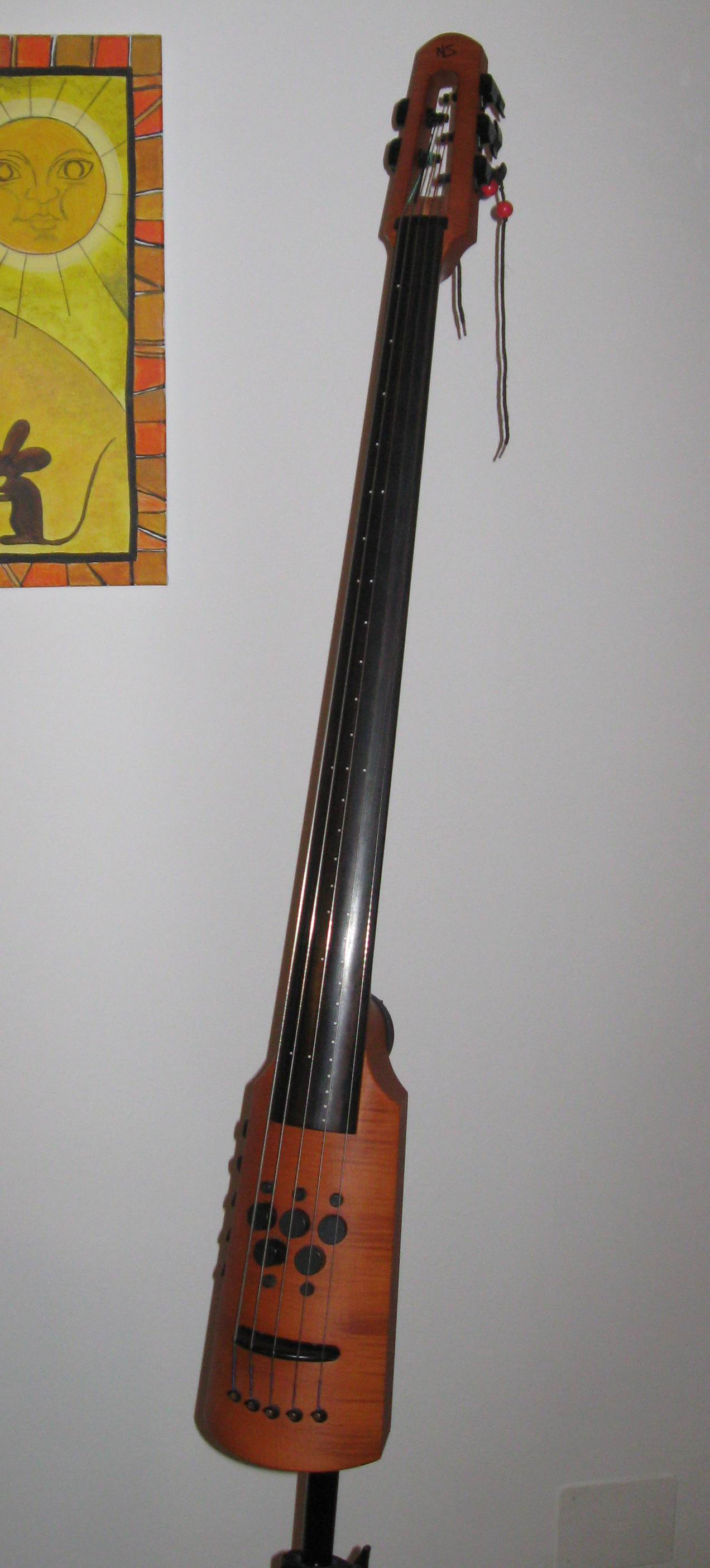 EUB NS Design Bass Cello 5 Strings